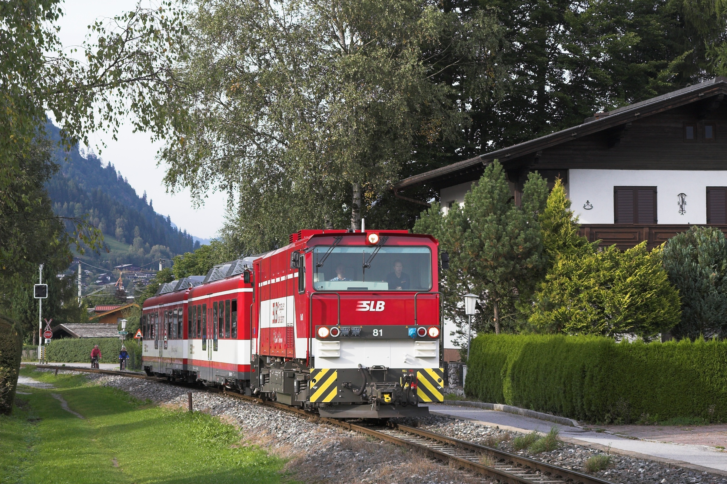 First new push-and-pull trainset of the Pinzgauer Lokalbahn with Gmeinder diesel Vs81, near Tischlerhäusl halt.